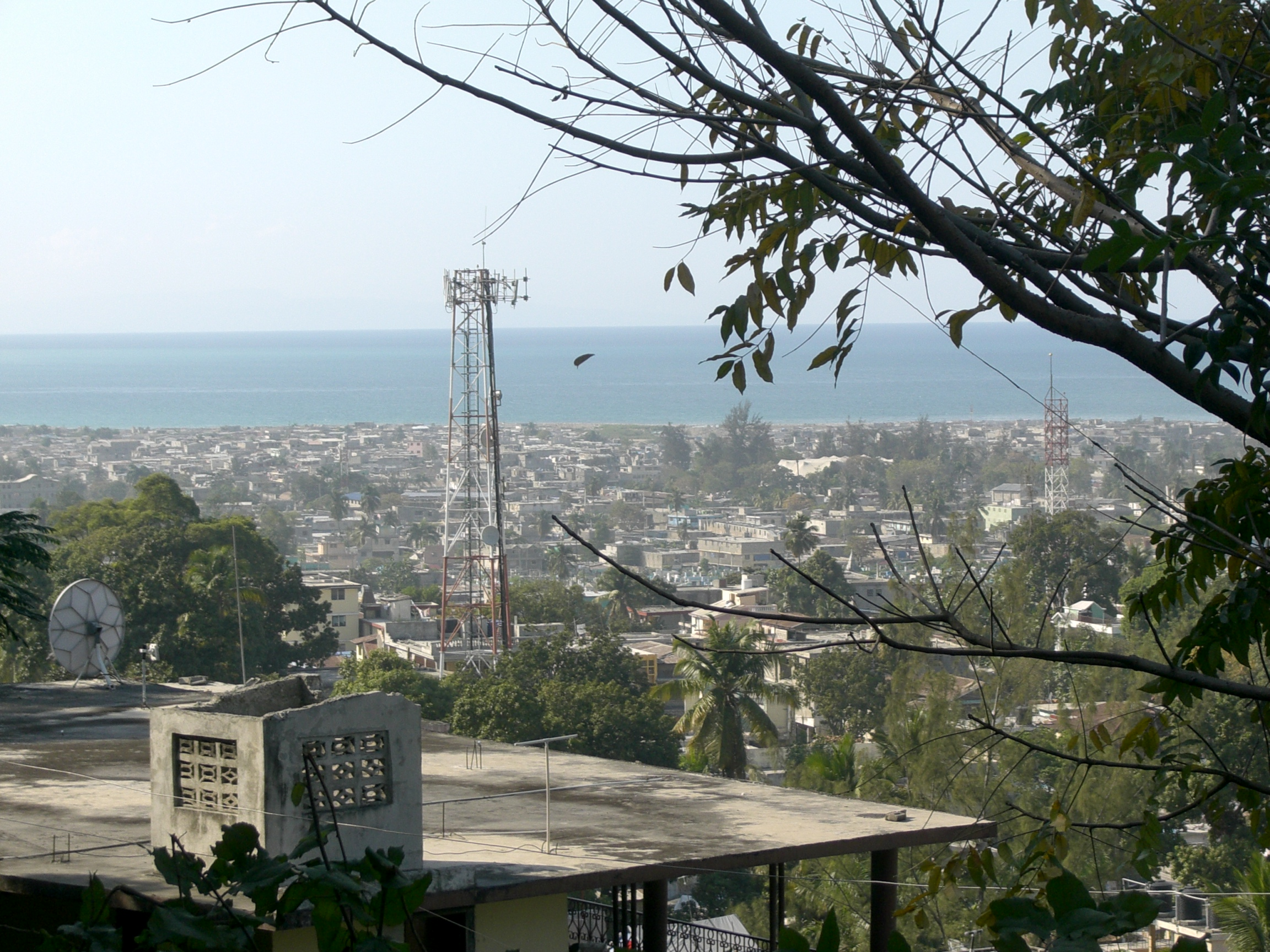 Port au Prince, from Oloffson Hotel